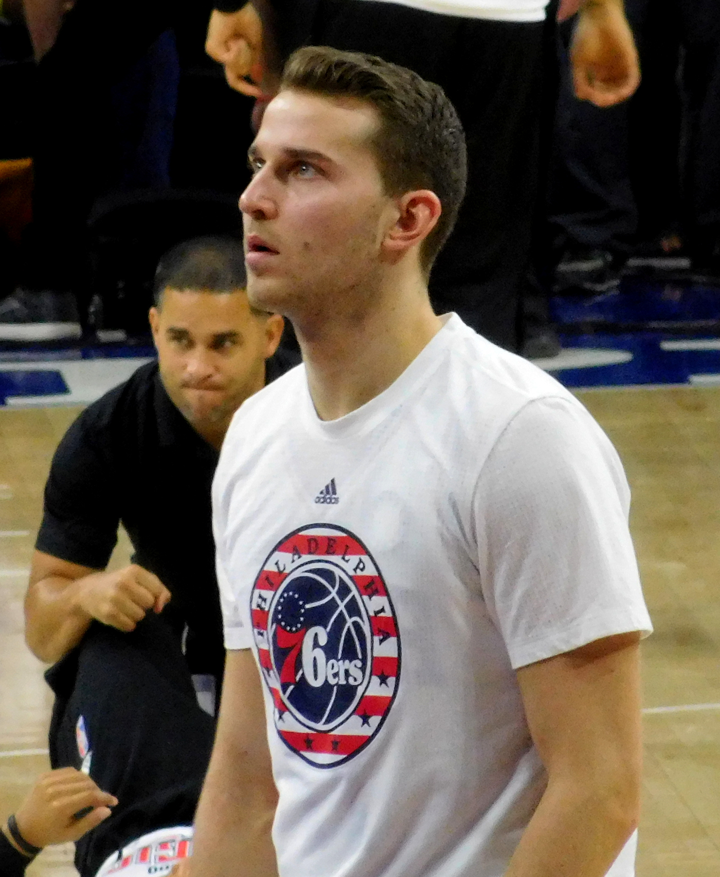 Nik Stauskas of the NBA's Philadelphia 76ers during pregame warm-ups prior to a match-up against the Orlando Magic.